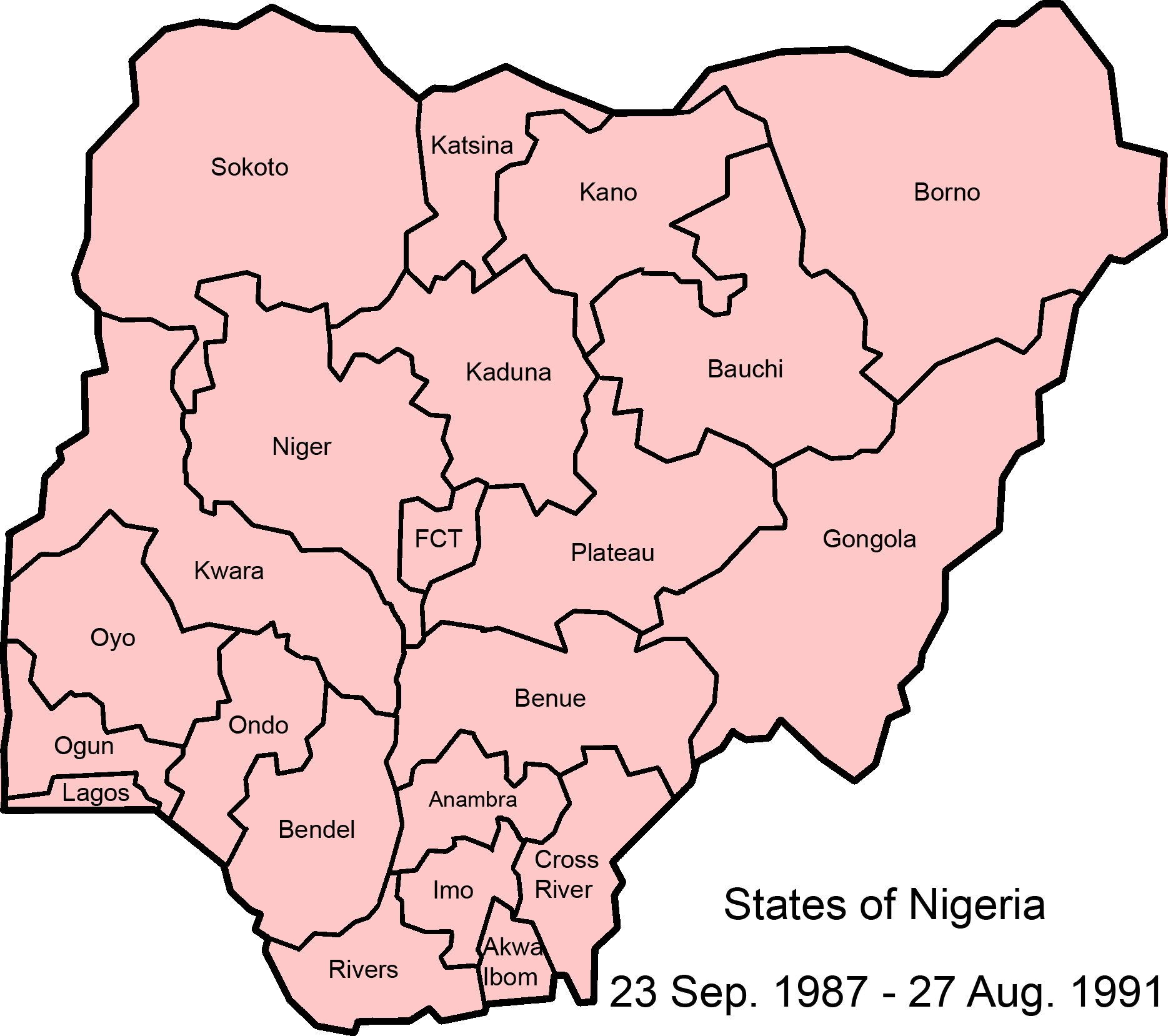 Map of Nigerian states, 23 Sep 1987 - 27 August 1991.